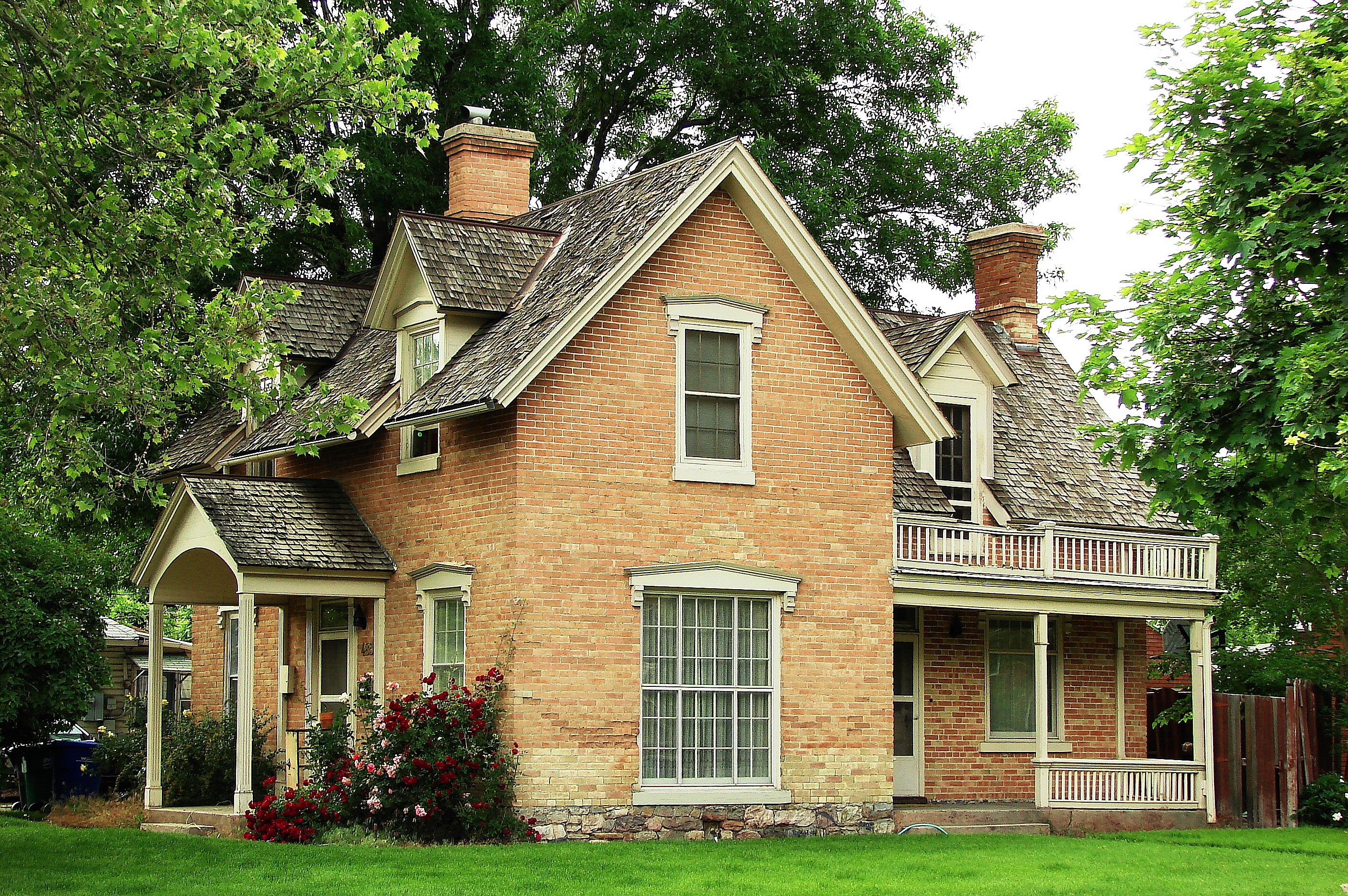 Listed on the National Register of Historic Places, Utah, USA.